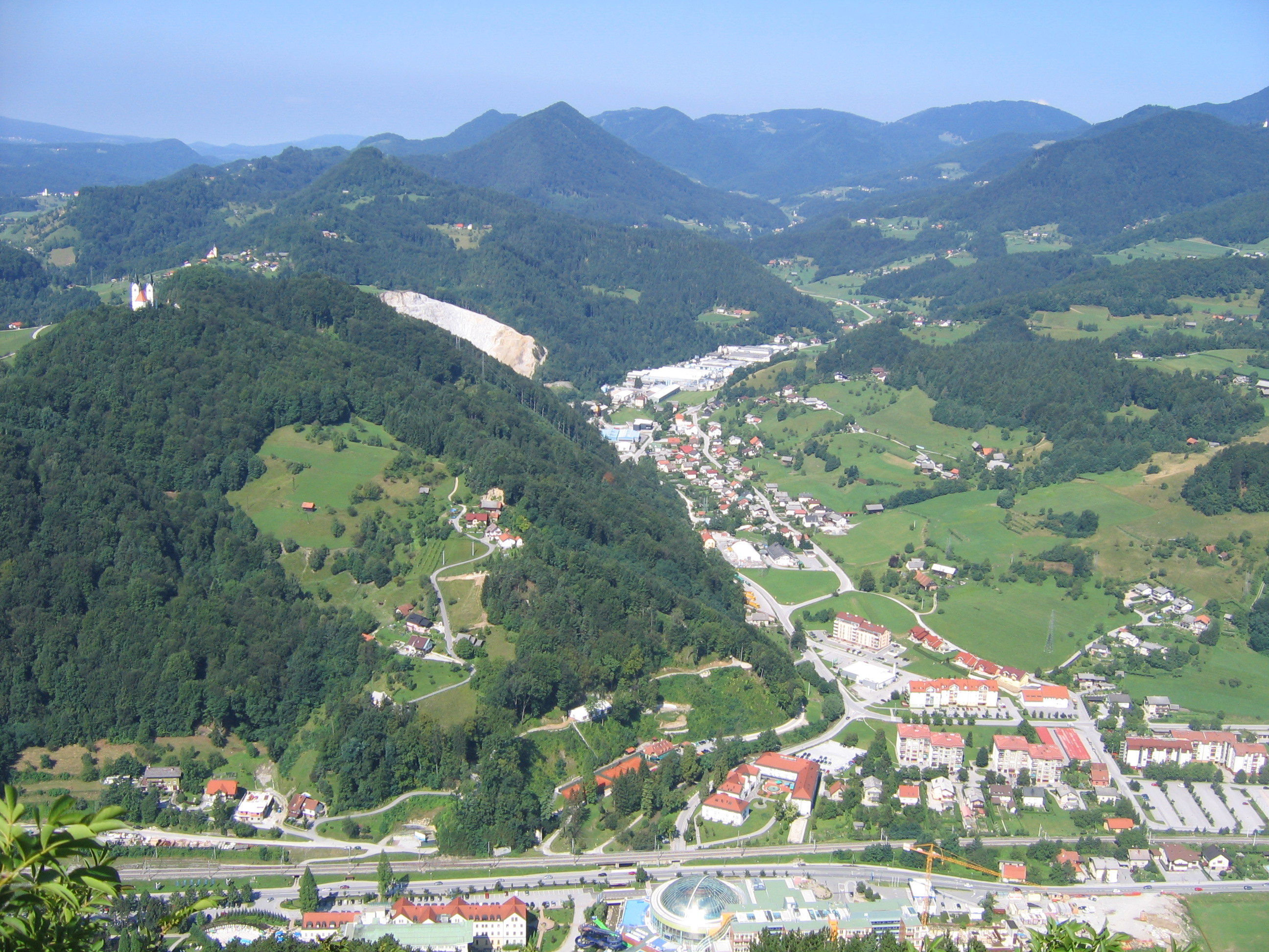 View to the West from top of the Hum hill.